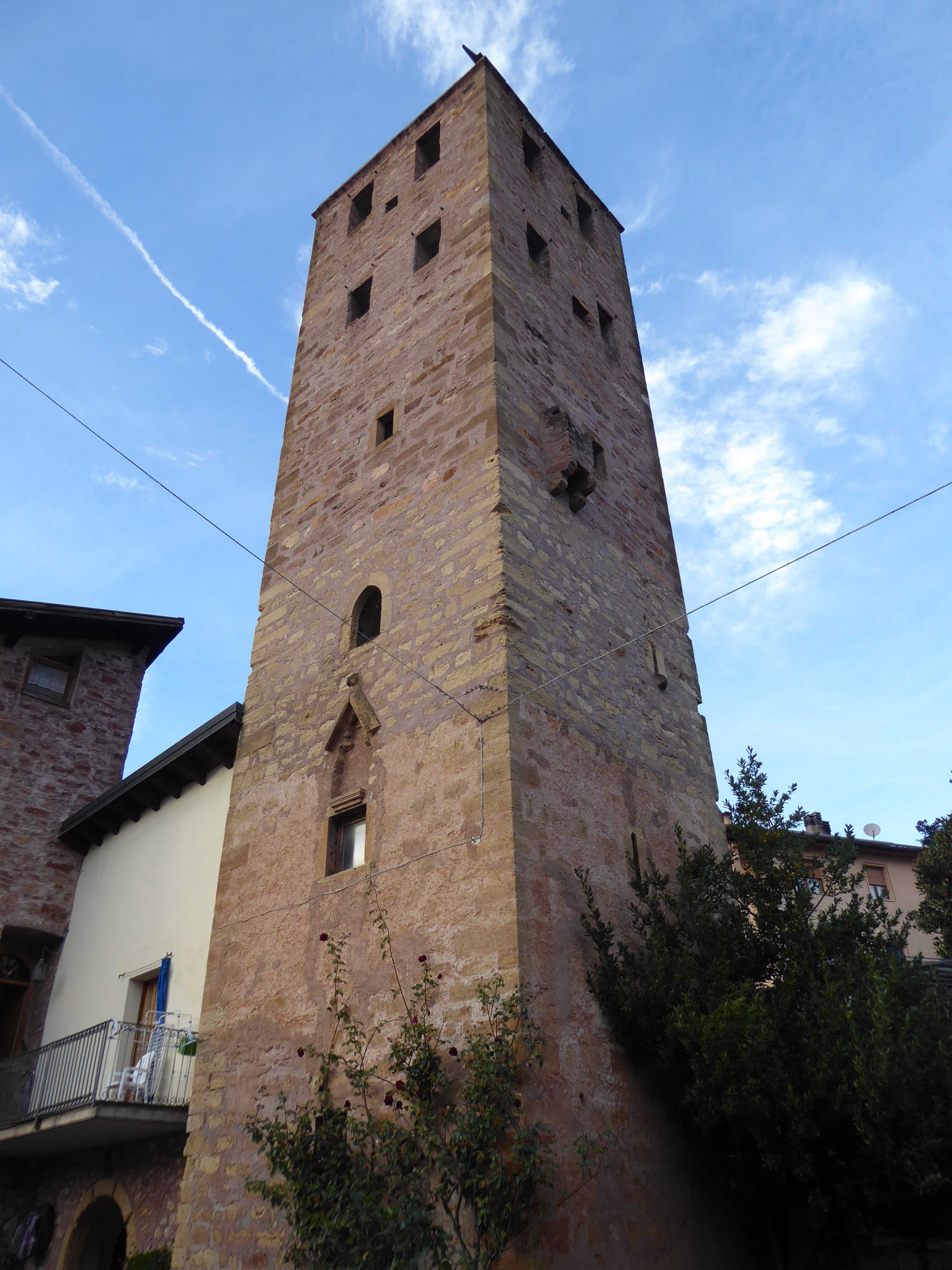 Ville (Giovo, Trentino, Italy) - Castel Giovo or Castello della Rosa